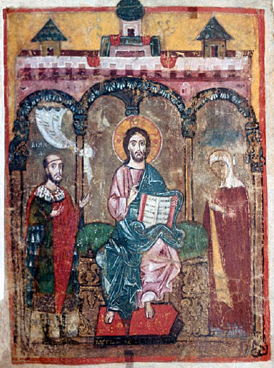 Christ Enthroned, with Michael of Tver to the right and his mother Xenia to the left, from a Russian manuscript of George Hamartolus